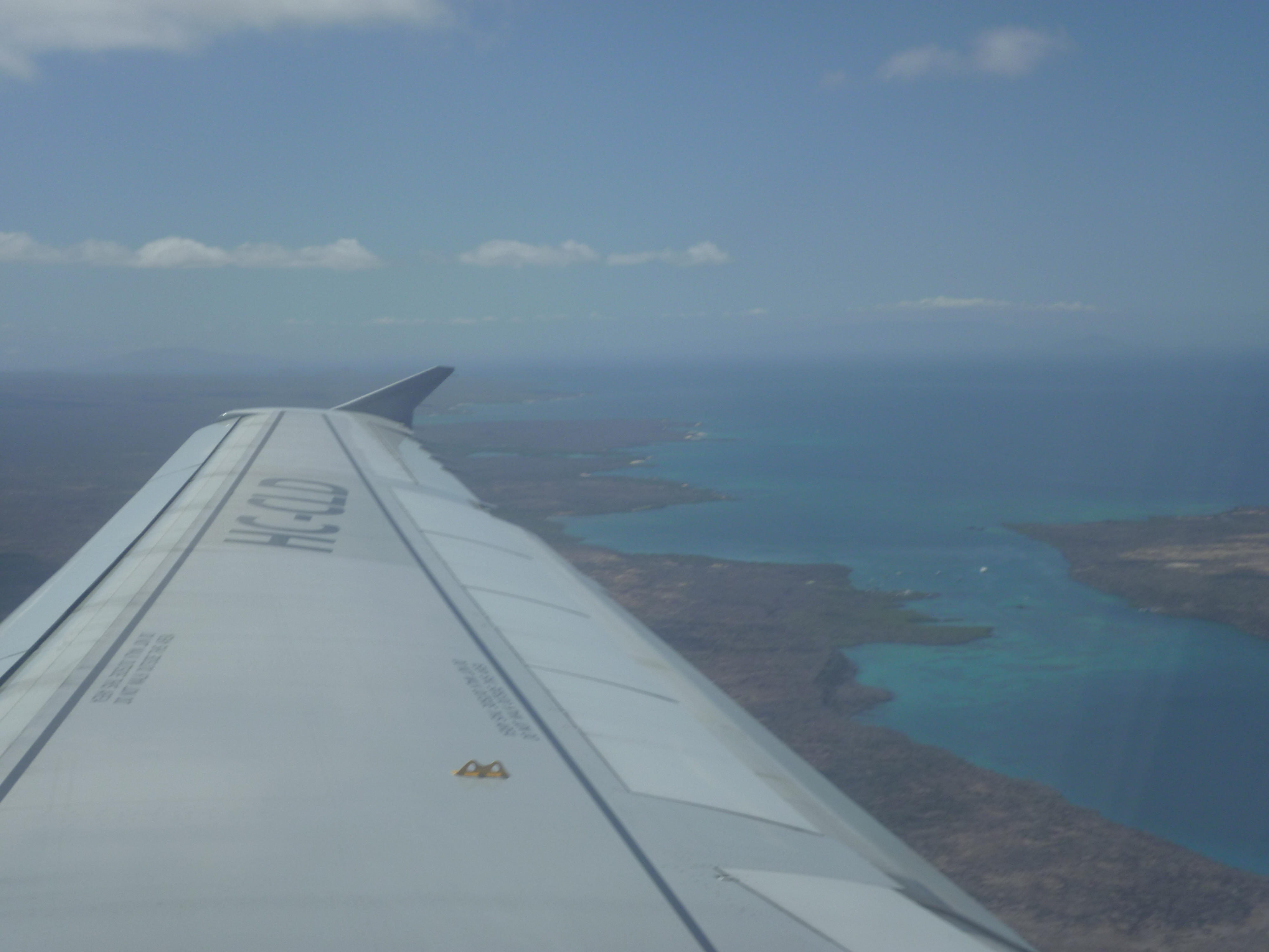 Photo from the airplane of the Island of Santa Cruz, Baltra and the Itabaca Channel in the Galapagos